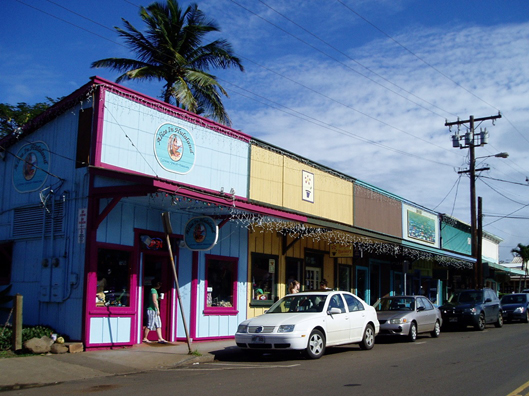 Photo taken of storefronts on main street in Paia, Maui